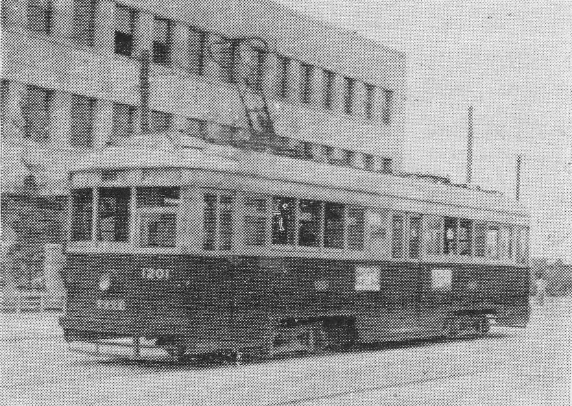 Osaka City Tram #1201